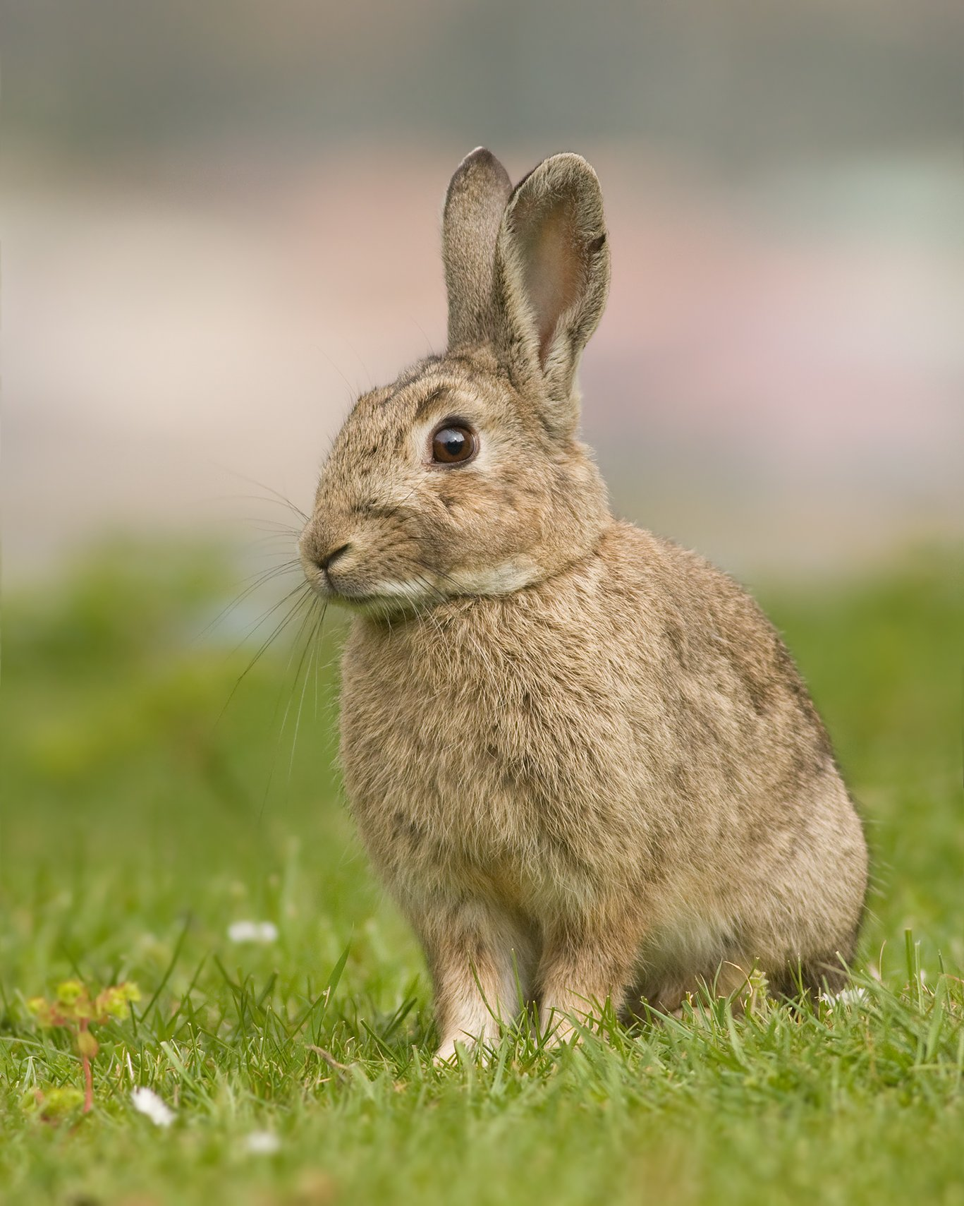 European rabbit (Oryctolagus cuniculus) in Austin's Ferry, Tasmania, Australia - Mirror-image view